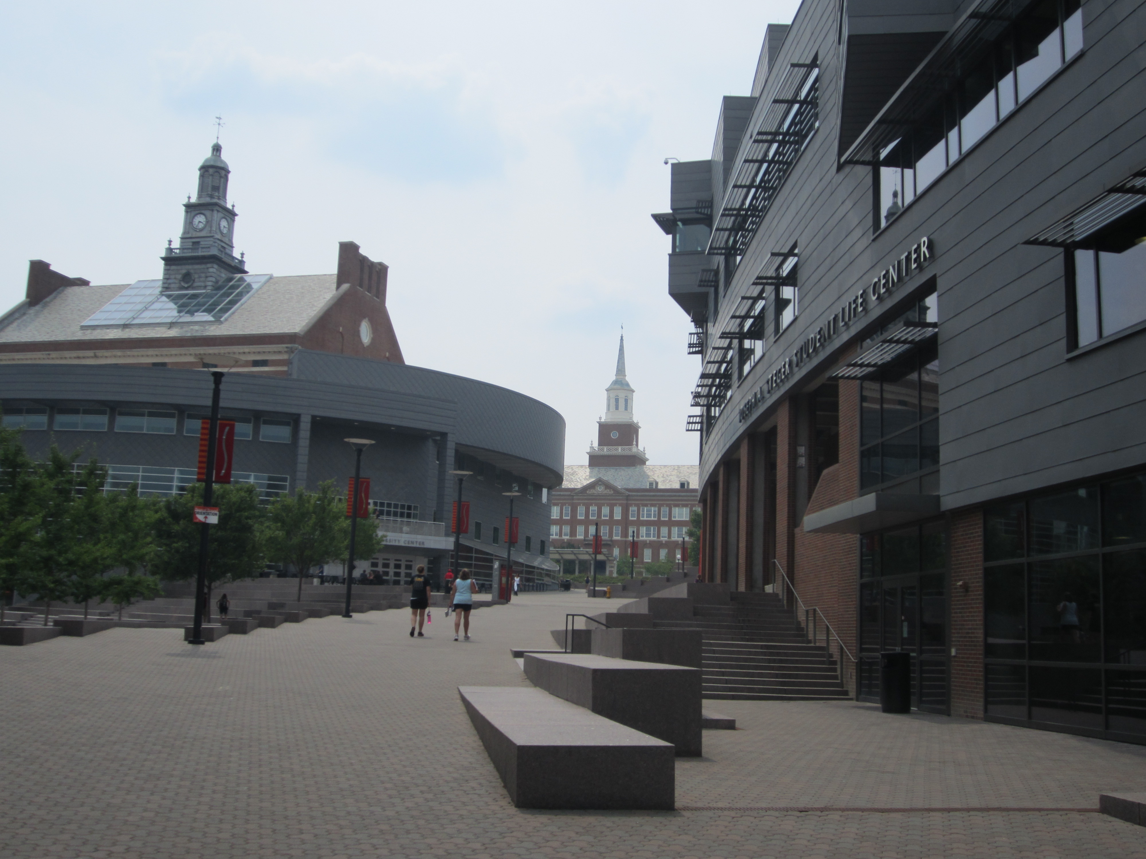 MainStreet at the University of Cincinnati looking towards TUC and McMicken hall.